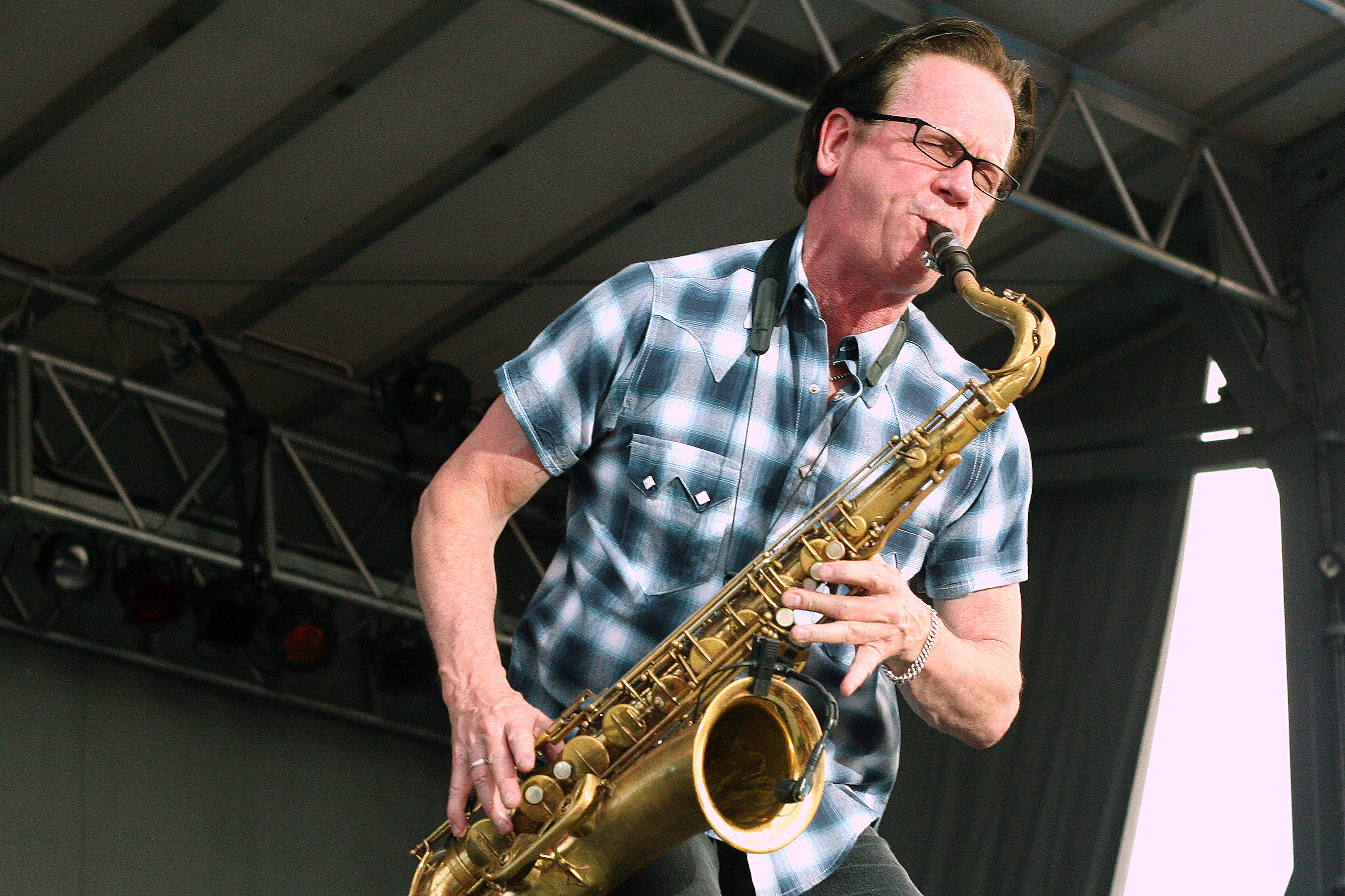 Huey Lewis and The News, June 23, 2013 at Montrose Beach